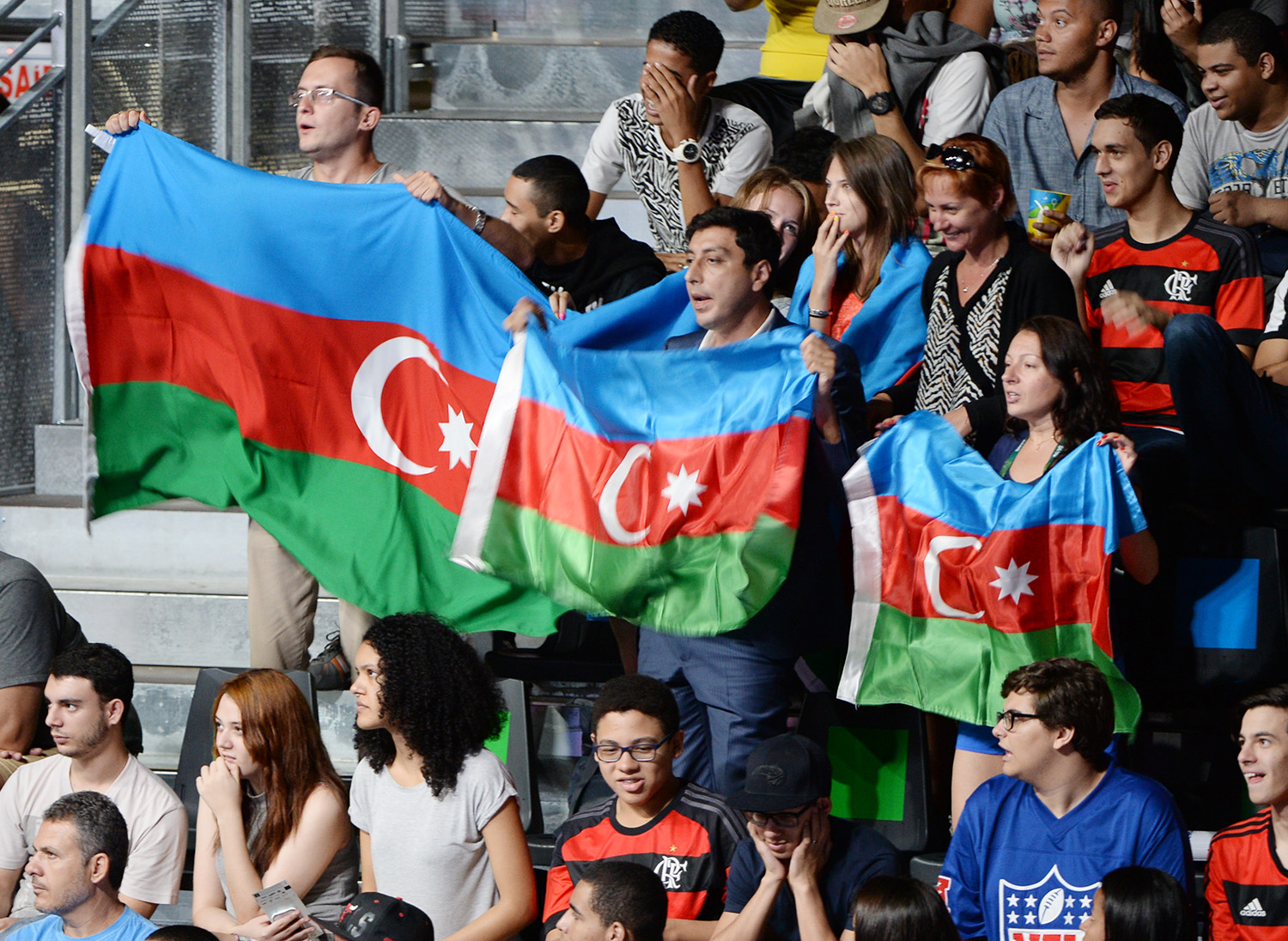 Boxing at the 2016 Summer Olympics, Selimov vs Joyce